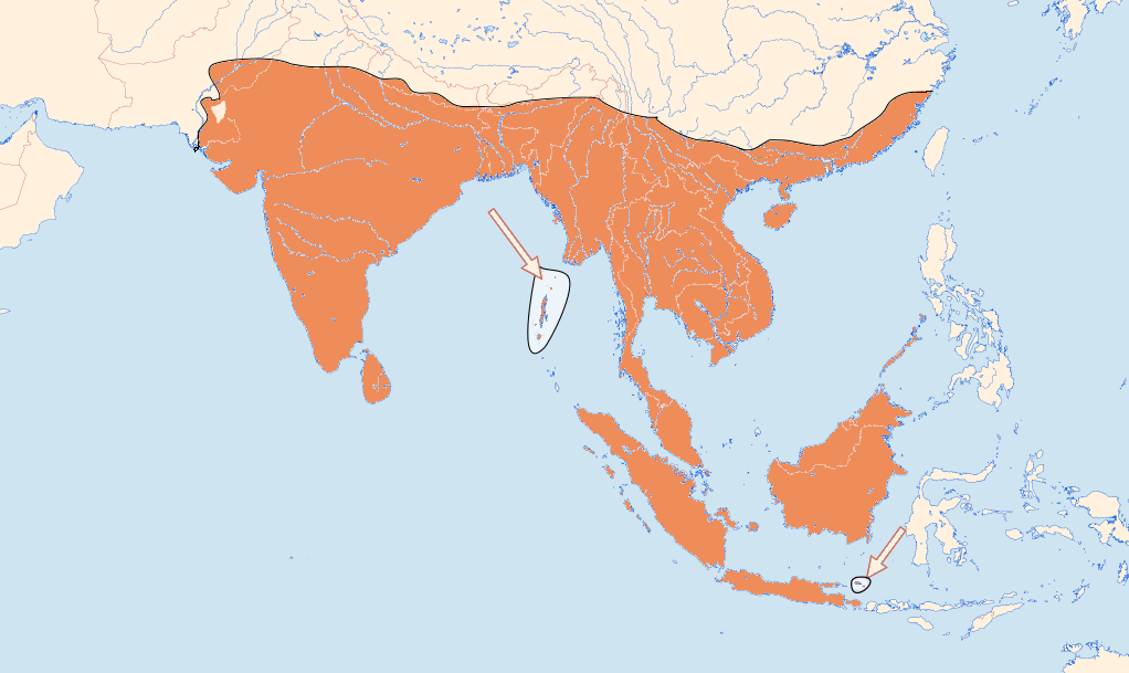 Distribution Map of Centropus sinensis